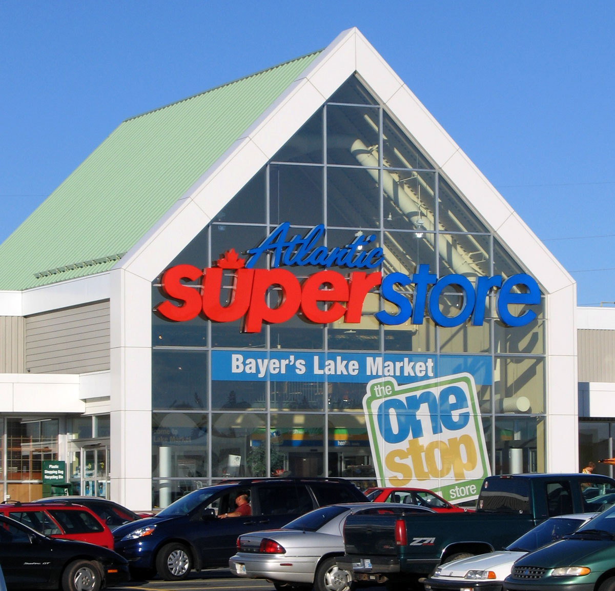 Atlantic Superstore, Halifax, Nova Scotia